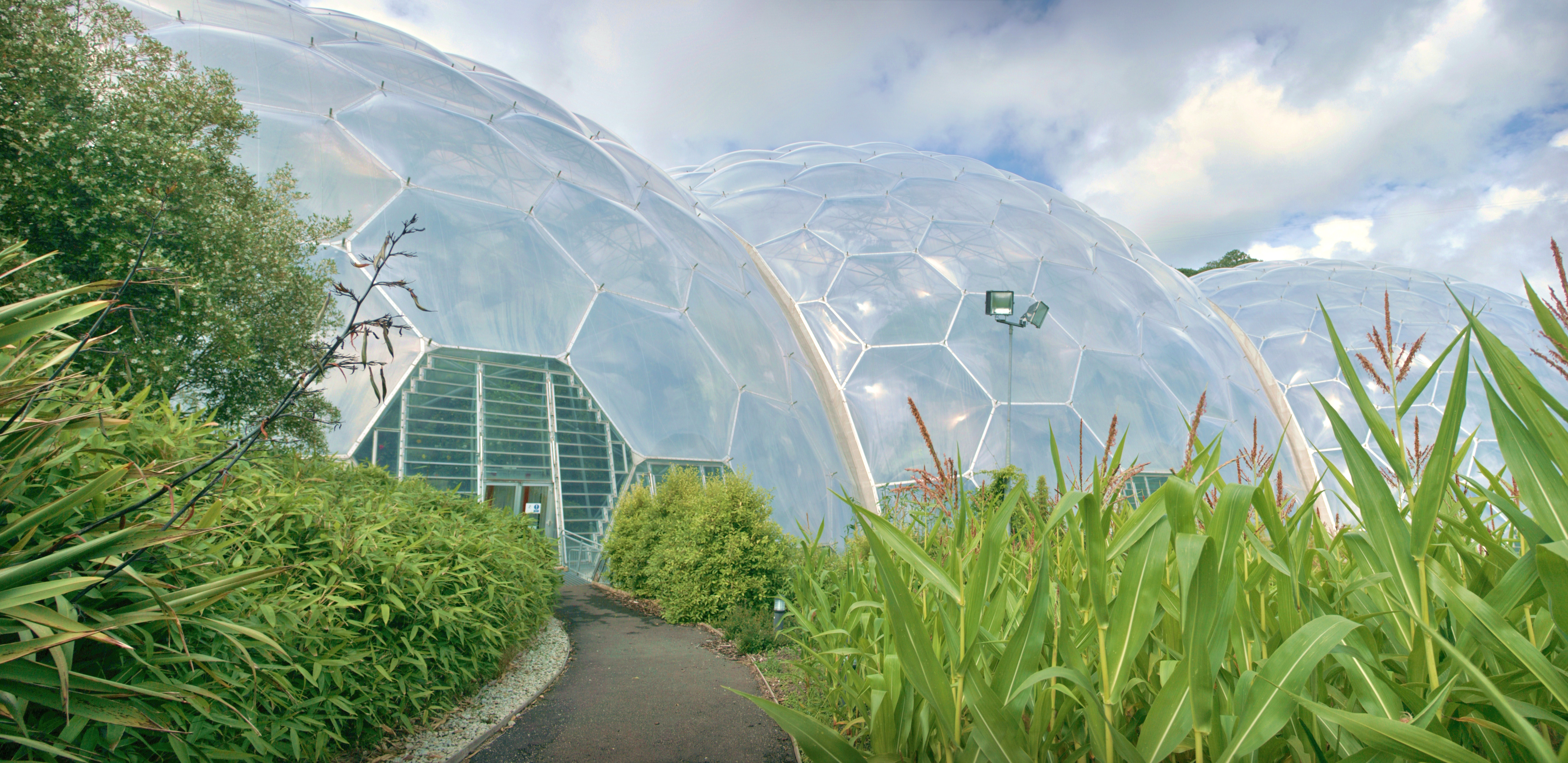 BIOMES